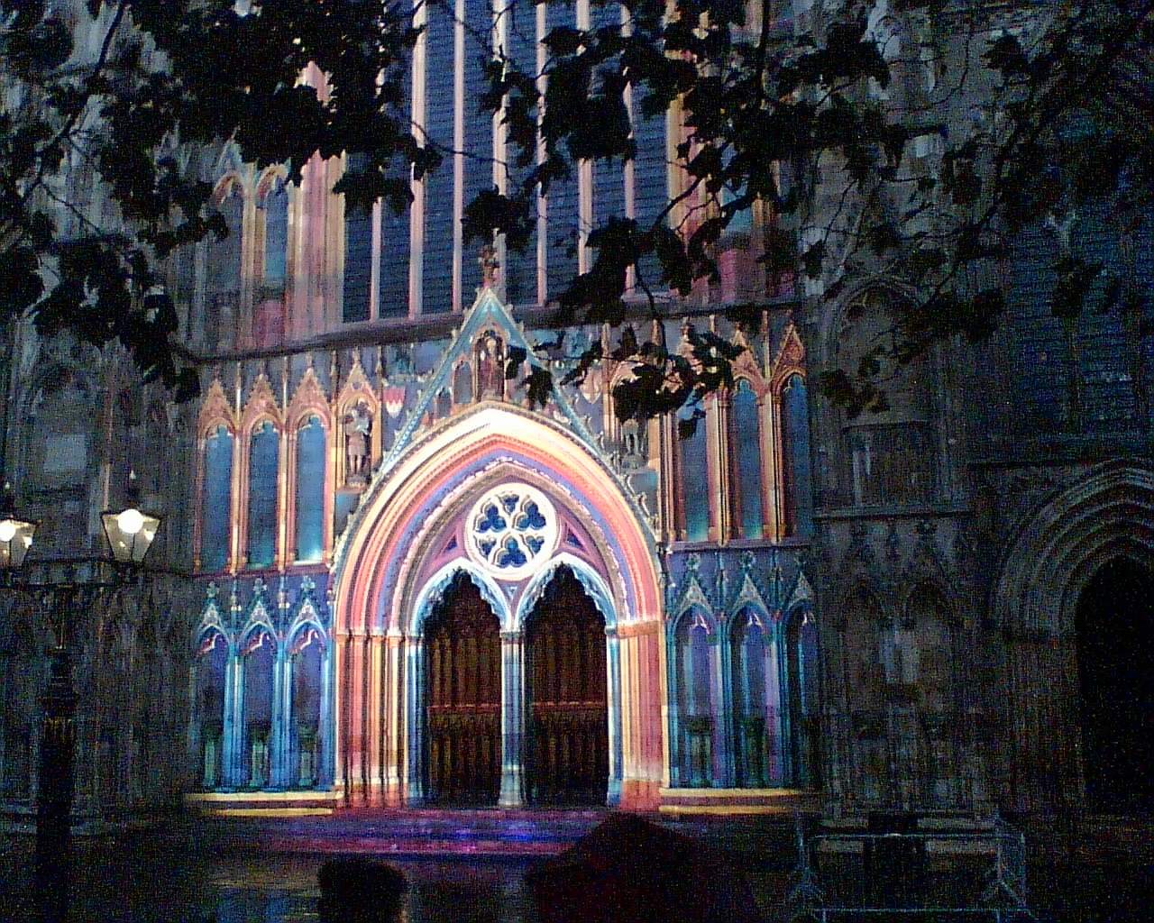 West front of York Minster, with 2005 Christmas illuminations